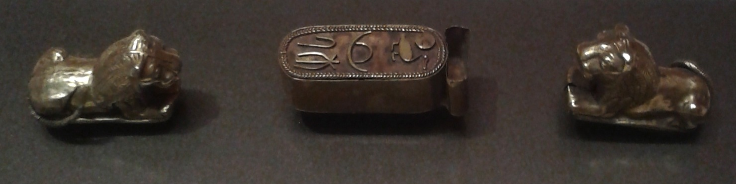 Fragments of an armband of pharaoh Ahmose I, Musee du Louvre.